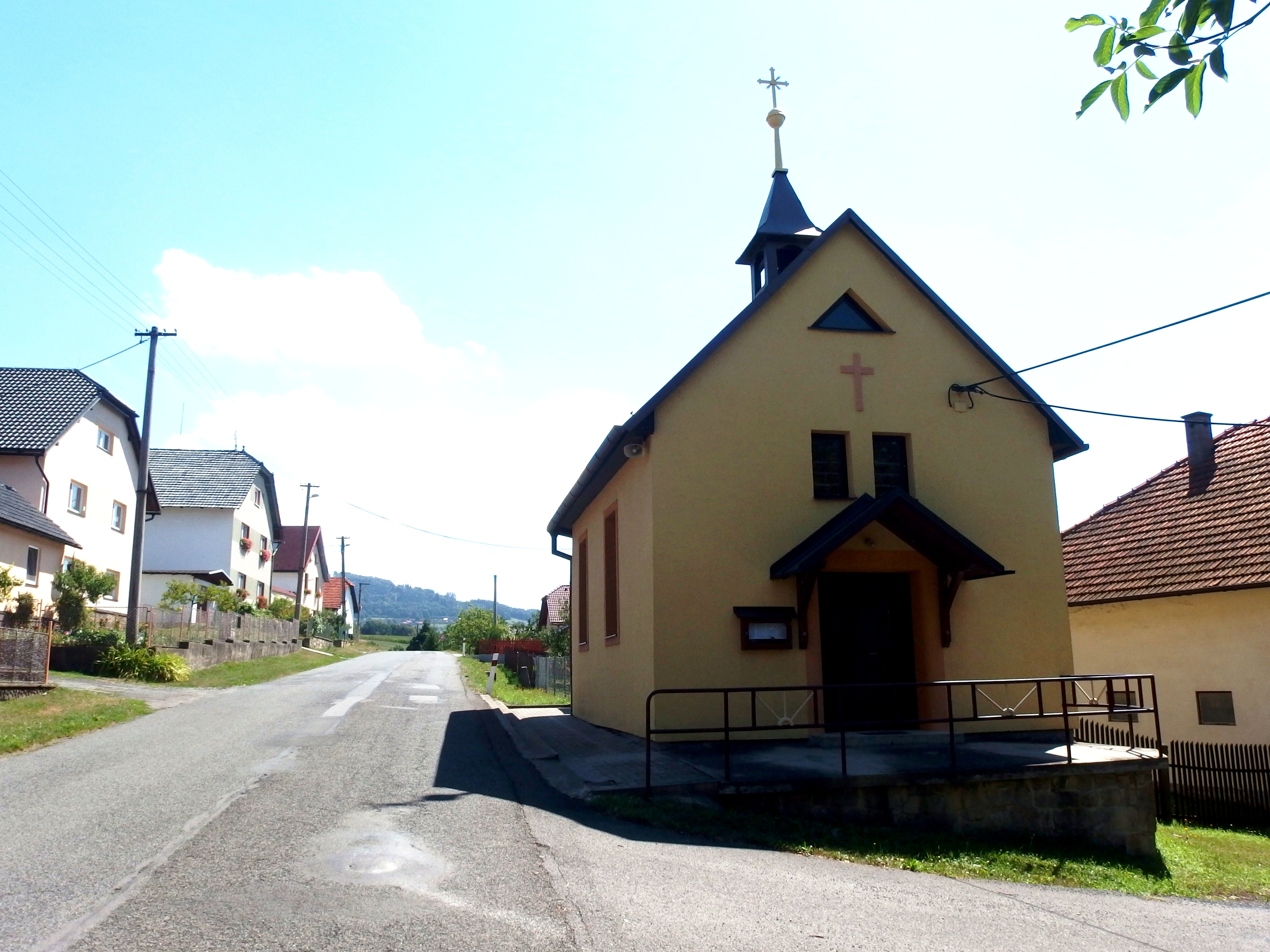 Starý Jičín, Nový Jičín District, part Palačov.